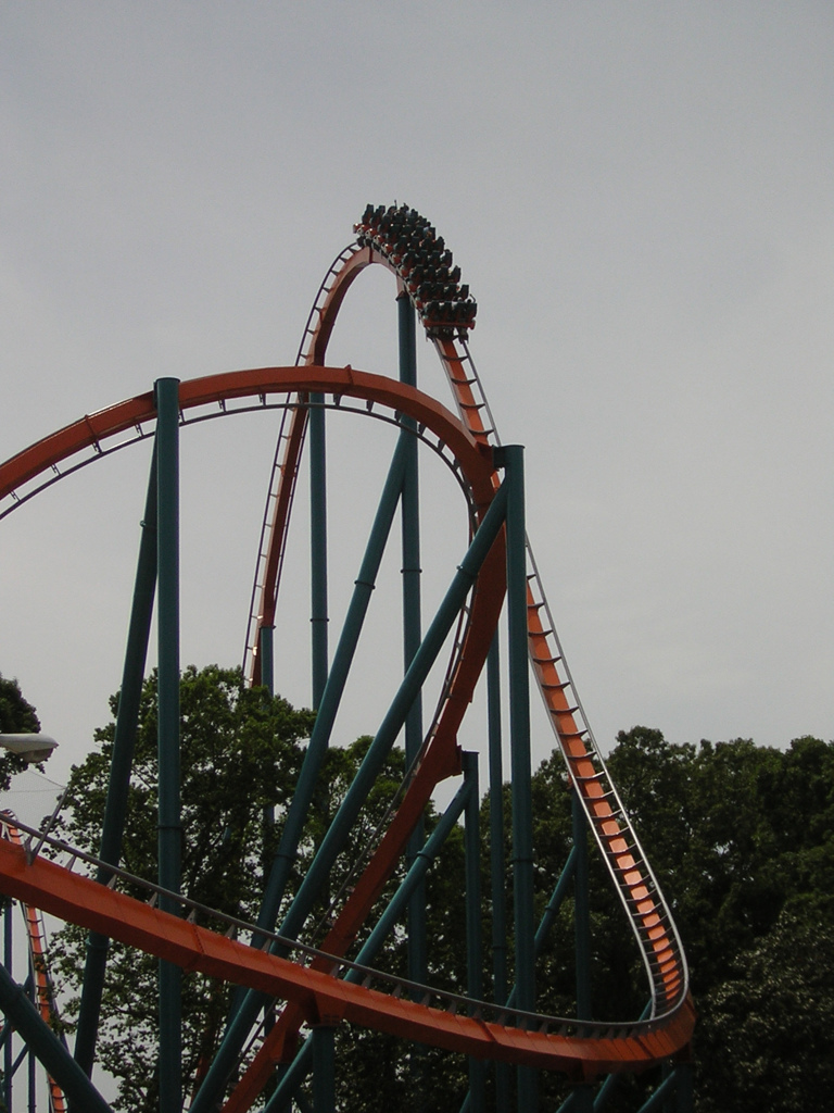 Goliath, hyper and mega roller coaster at Six Flags Over Georgia, USA.